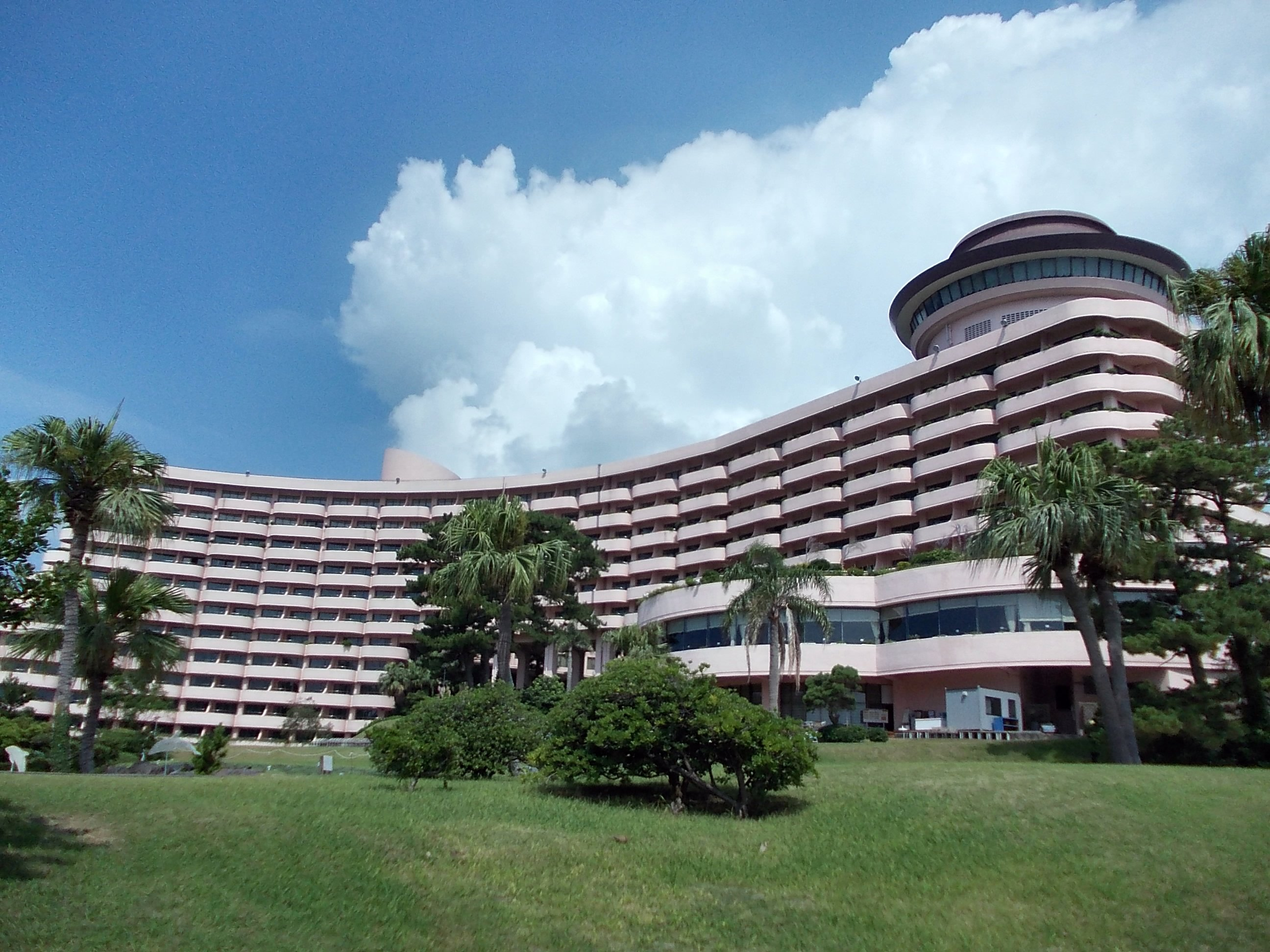 Ibusuki Iwasaki Hotel, Ibusuki, Kagoshima, Japan